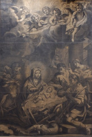 Adoration of the Shepherds, monumental engraving 217,6 cm x 148 cm in 9 plates by François Langot, Museo Civico di Viterbo